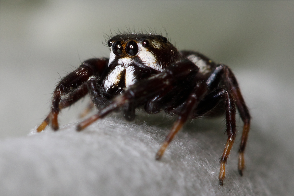 Adult male Metaphidippus manni jumping spider found at Briones Regional Park, Contra Costa County, California.